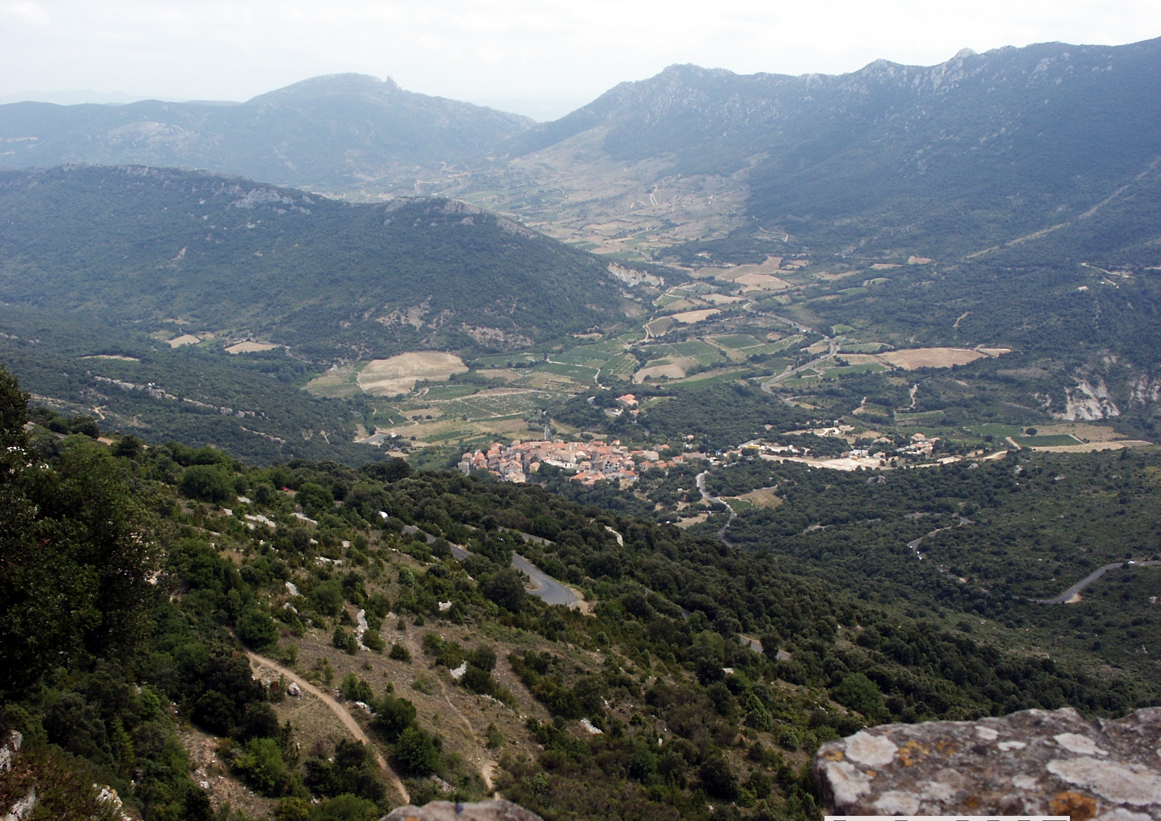 Blick ins Tal